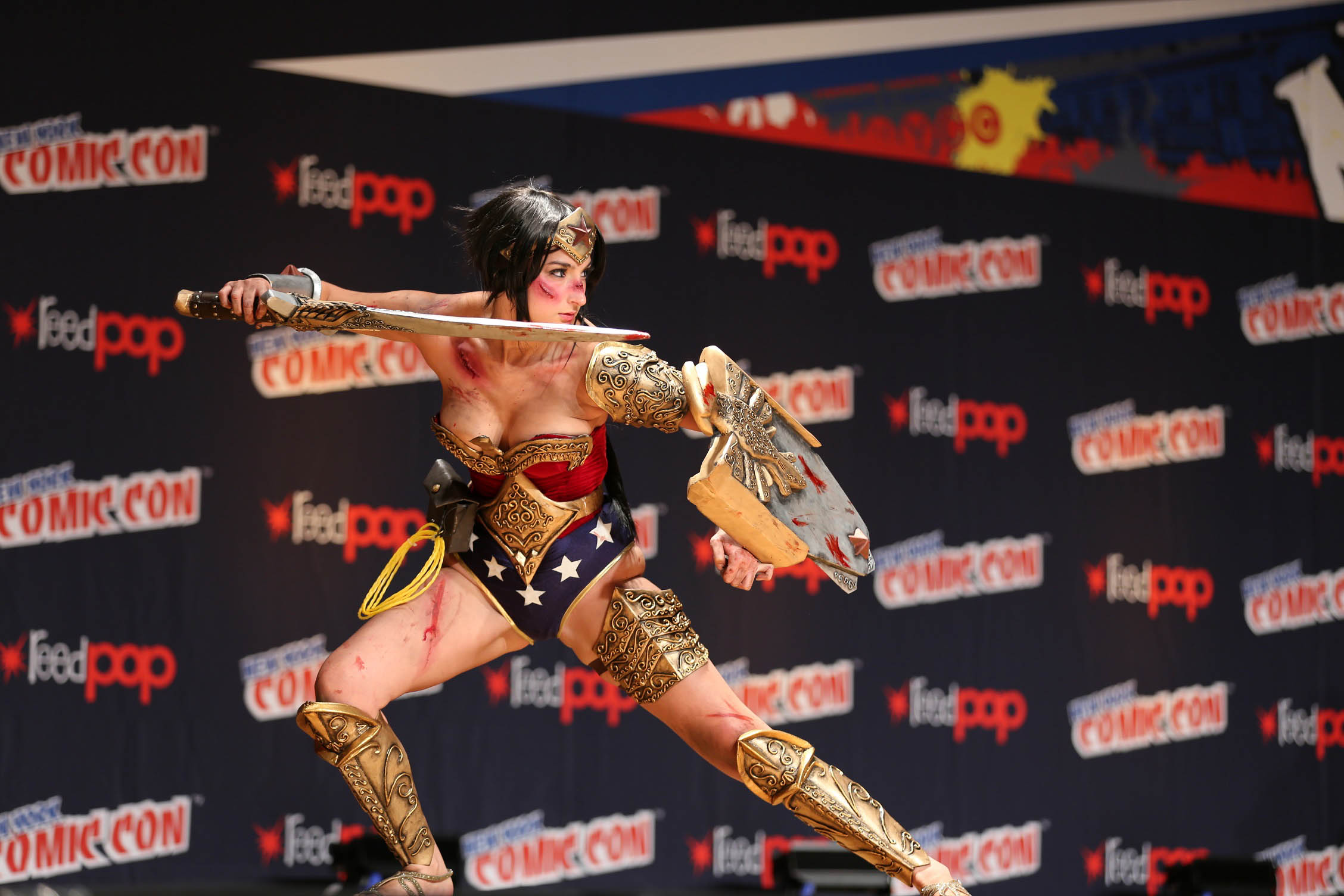 Cosplay at the 2014 New York Comic Con.